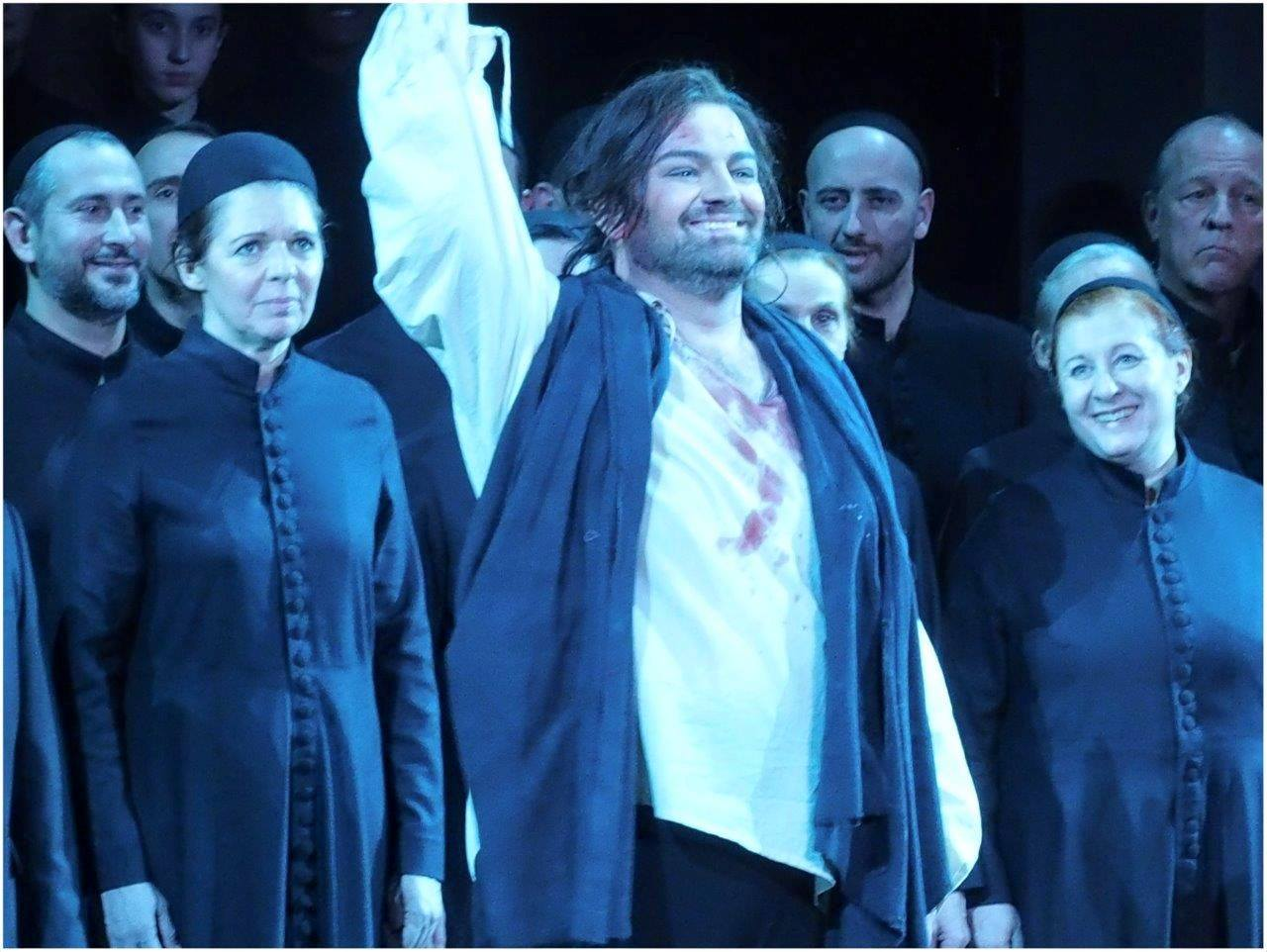 Giorgio Berrugi taking a Curtain call